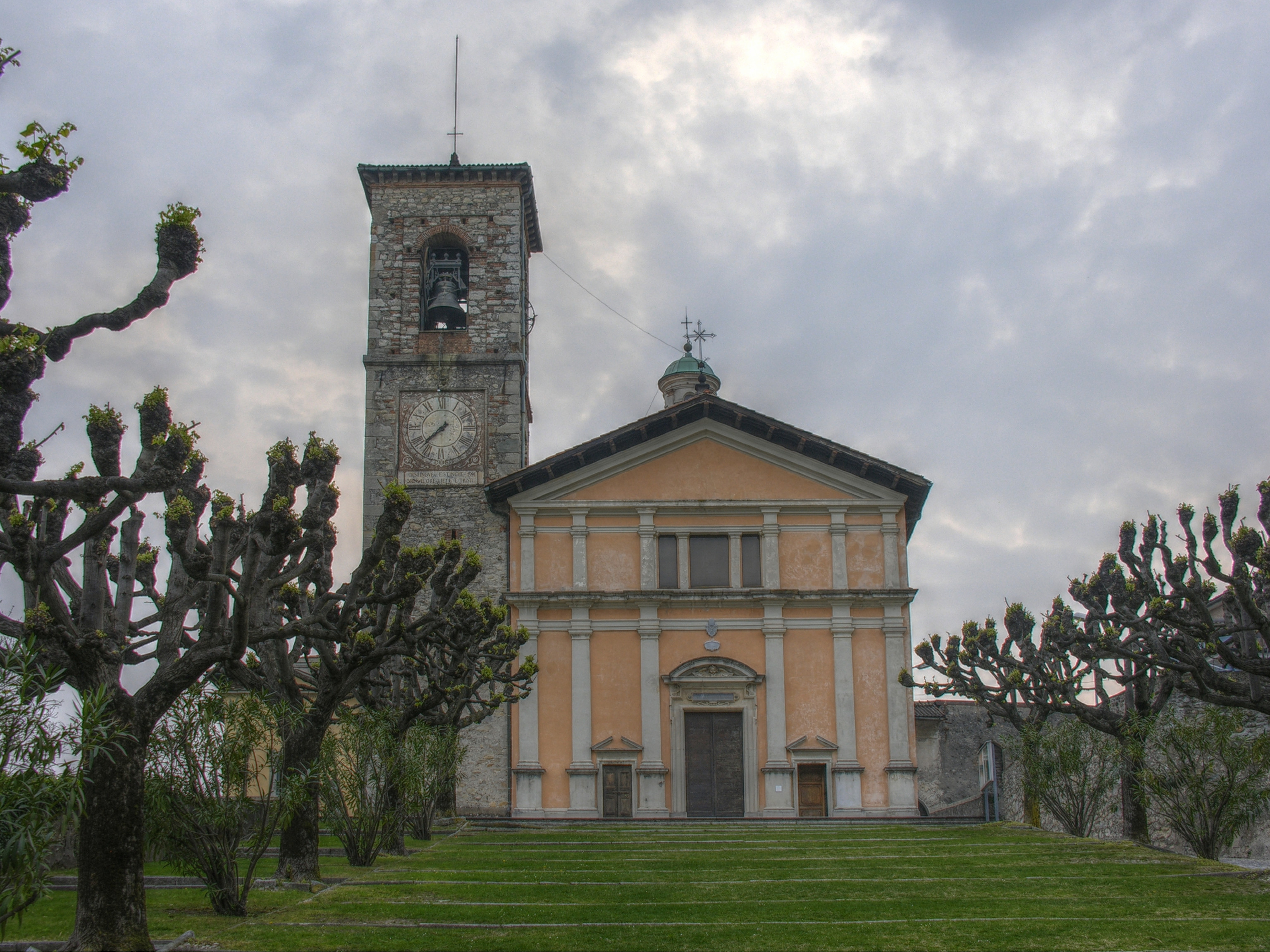 Morbio Inferiore, Tessin, Switzerland, Santa Maria dei Miracoli church (HDR version)